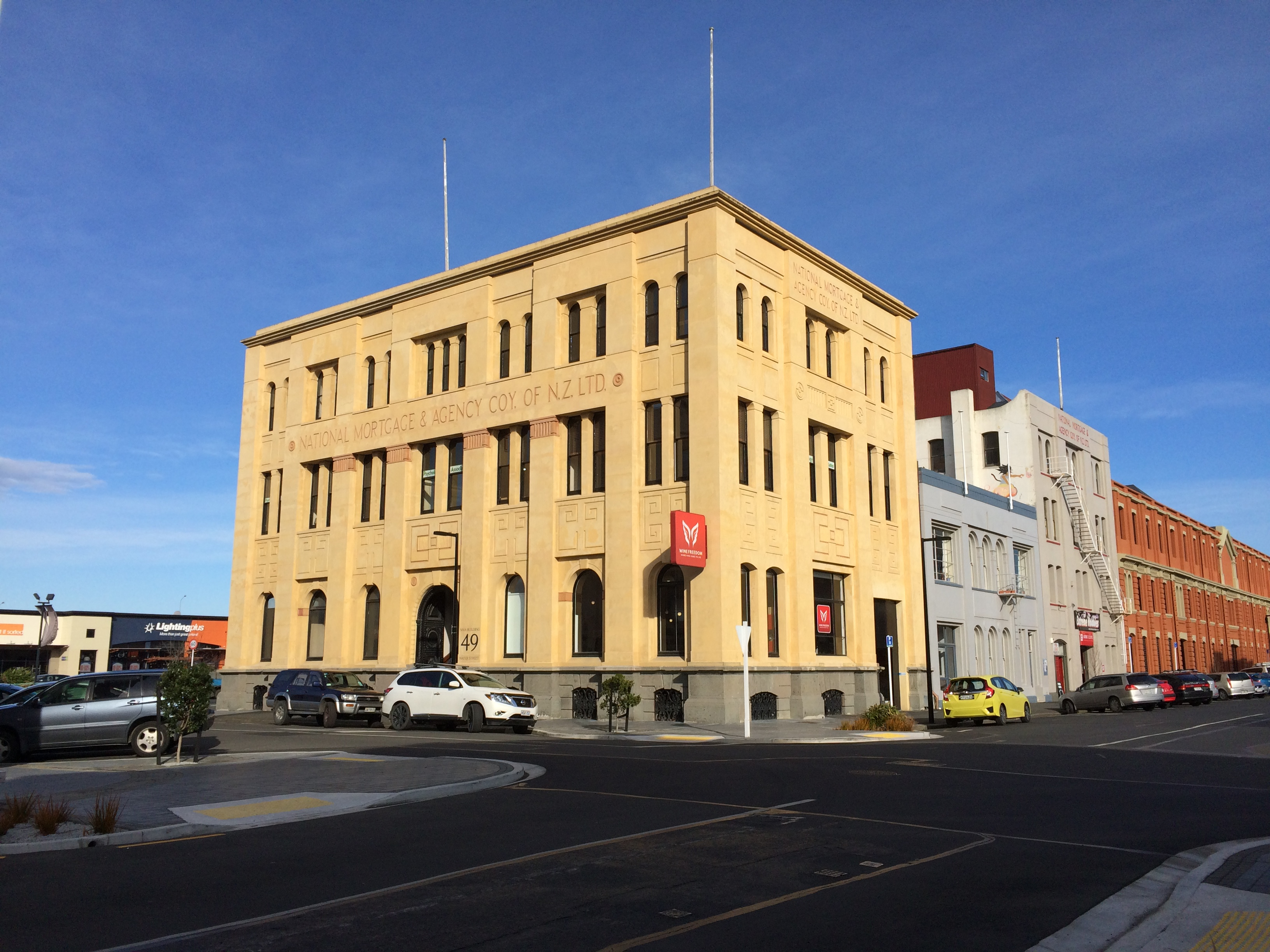 Warehouse Precinct